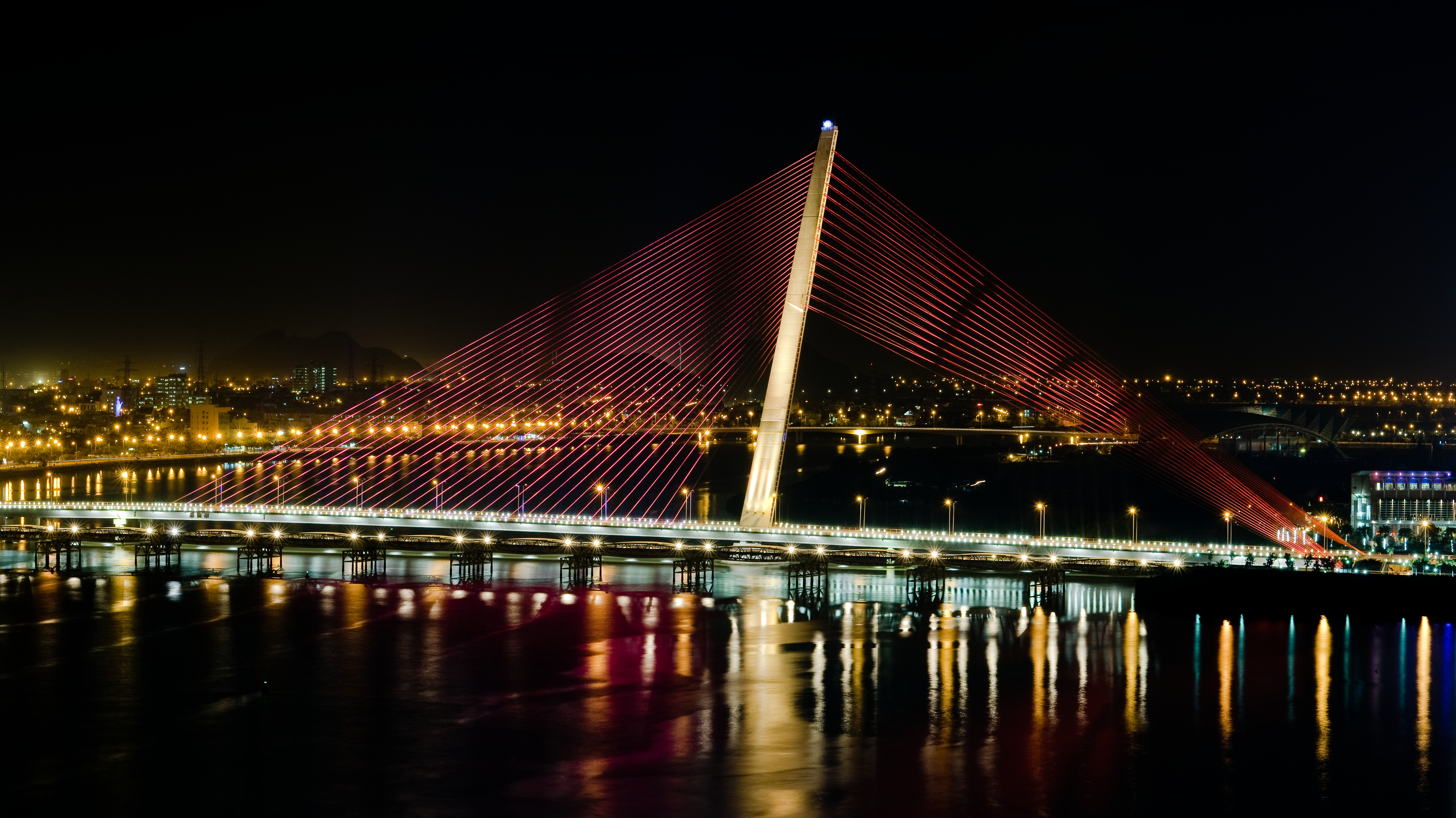 Trần Thị Lý Bridge over Han river, Da Nang, Vietnam.